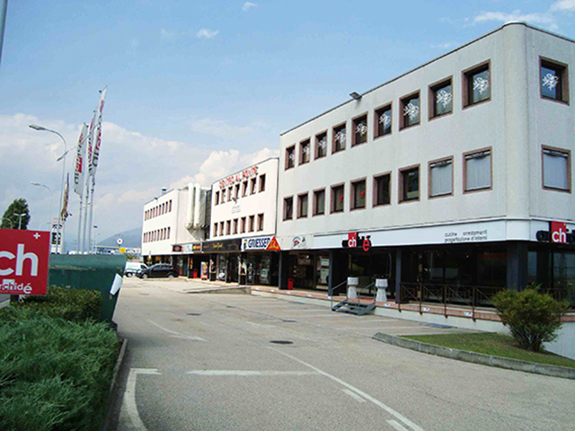 Stabile della Fondazione e del Museo